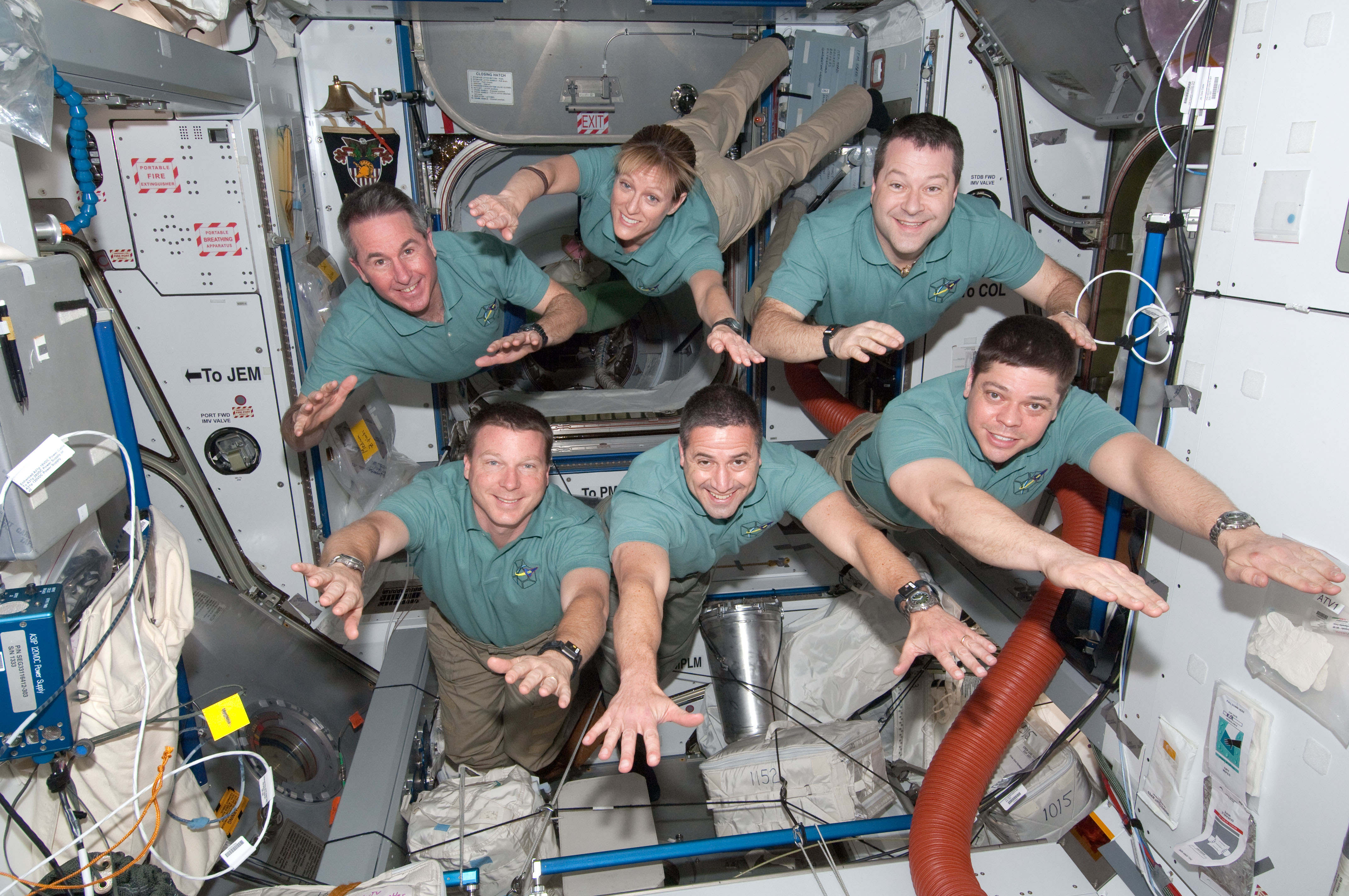 STS-130 crew members pose for a portrait in the Harmony node following a joint crew news conference with the Expedition 22 crew members while space shuttle Endeavour remains docked with the International Space Station. Pictured on the bottom row are NASA astronauts George Zamka (center), commander; Terry Virts (left), pilot; and Robert Behnken, mission specialist. Pictured from the left (top row) are astronauts Stephen Robinson, Kathryn Hire and Nicholas Patrick, all mission specialists.